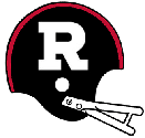 Ottawa Rough Rider Helmet in their heyday